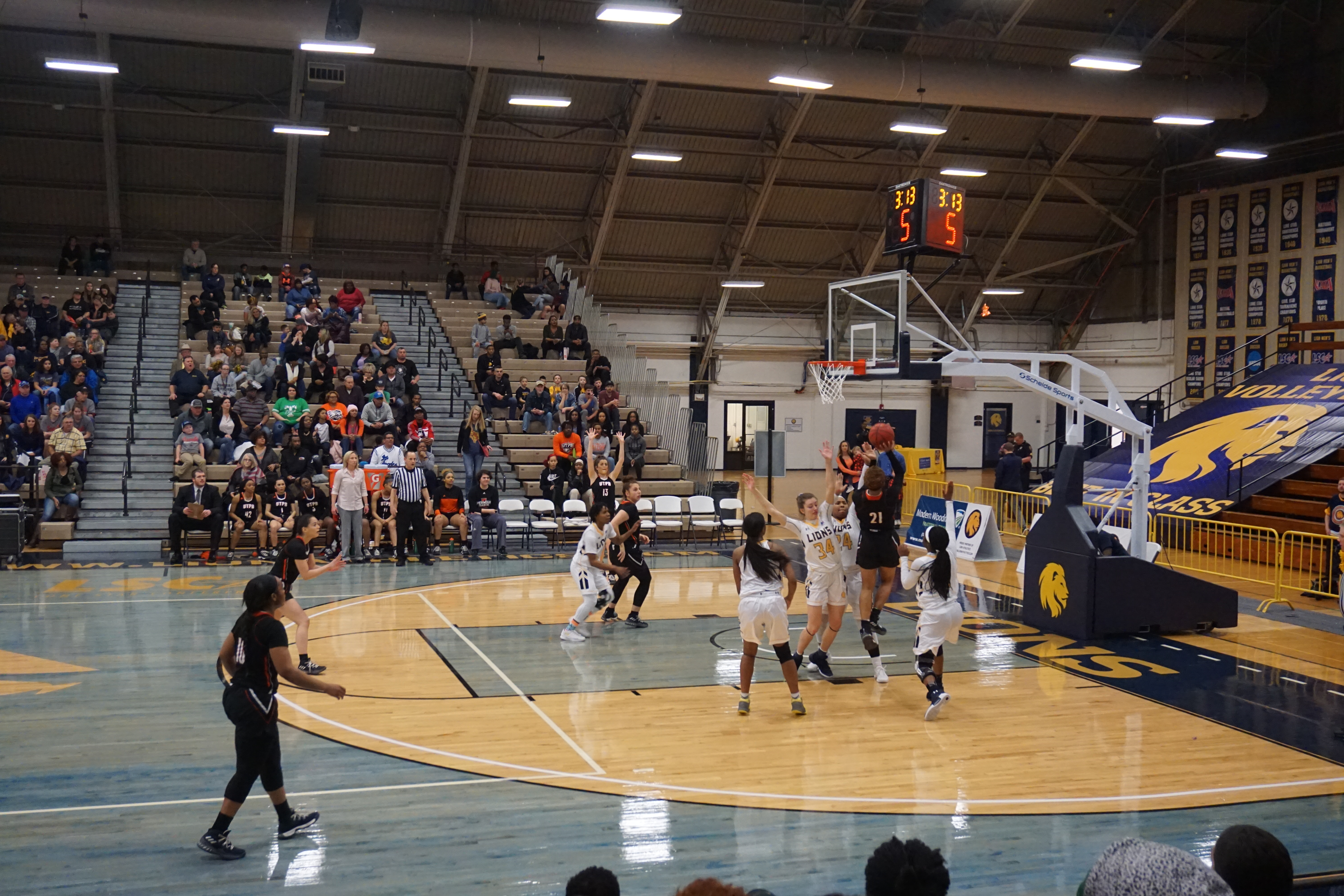 In-game action during the Texas–Permian Basin Falcons vs. Texas A&M–Commerce Lions women's basketball game at the Field House in Commerce, Texas (United States). Texas–Permian Basin won 64–61.